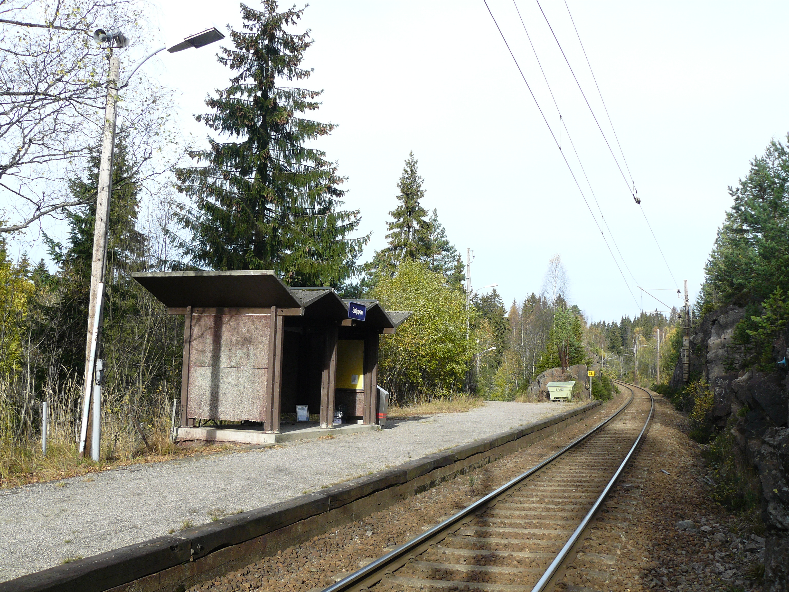 Snippen trainstation, Oslo